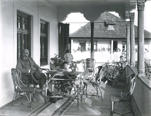 Iorga at Vălenii de Munte